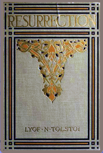 Cover of the 1911 Crowell edition of Resurrection by Lyof N. Tolstoï 2 v. in 1 (ix, 278; 282 p.), [1] leaf of plates